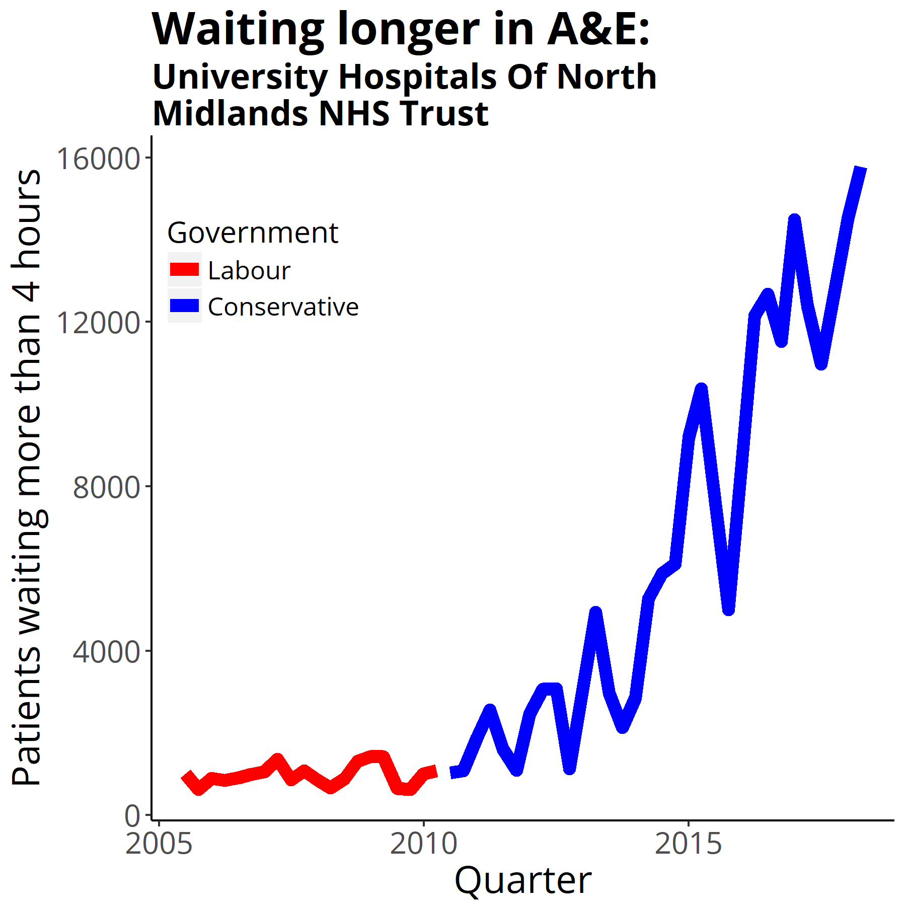 en|1=Four-hour target in the emergency department quarterly figures from NHS England[1]